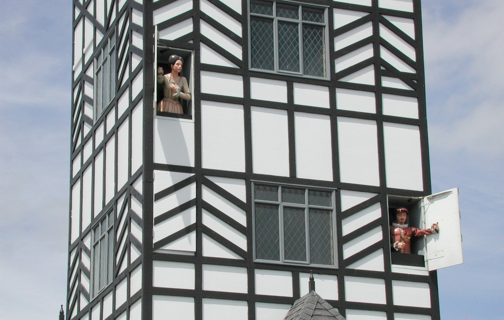 Stratford clock tower "Glockenspiel" - Romeo and Juliet talking.